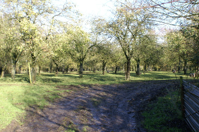 Apple Orchard.